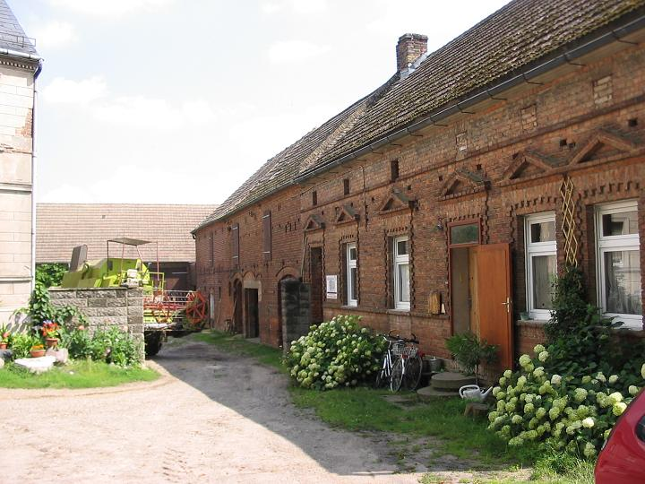 Former „Obermühle“ (watermill) at Pfefferfließ in Gottsdorf, a village (part) of the municipality Nuthe-Urstromtal in Brandenburg, Germany. The Pfefferfließ is a small stream, which dewaters especially a fen nearby Luckenwalde over the rivers Nuthe and Havel to Elbe.